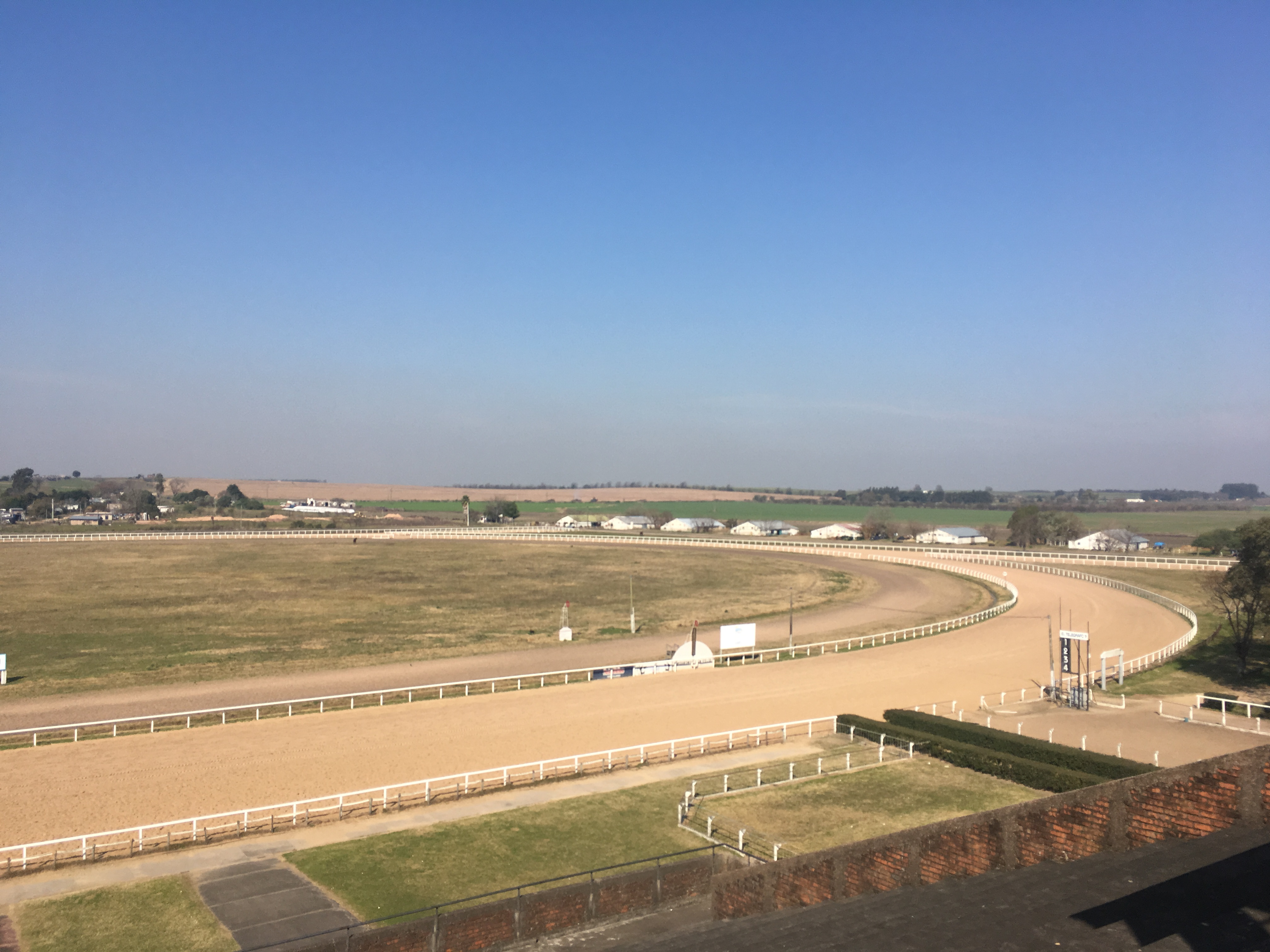 Foto tomada en hipódromo San Félix, desde las gradas.